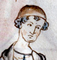 Peter of Aspelt